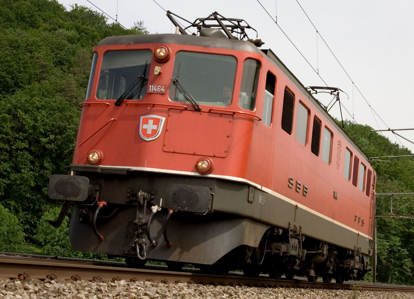 SBB-CFF-FFS former "Gotthard locomotive" Ae 6/6, now mostly used for short-distance freight runs.